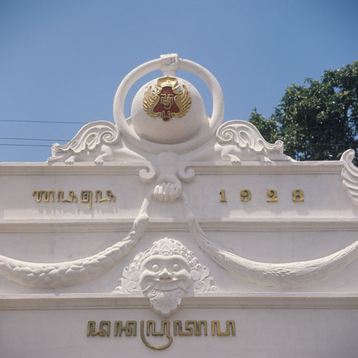 The sultan's emblem above the entrance of his palace